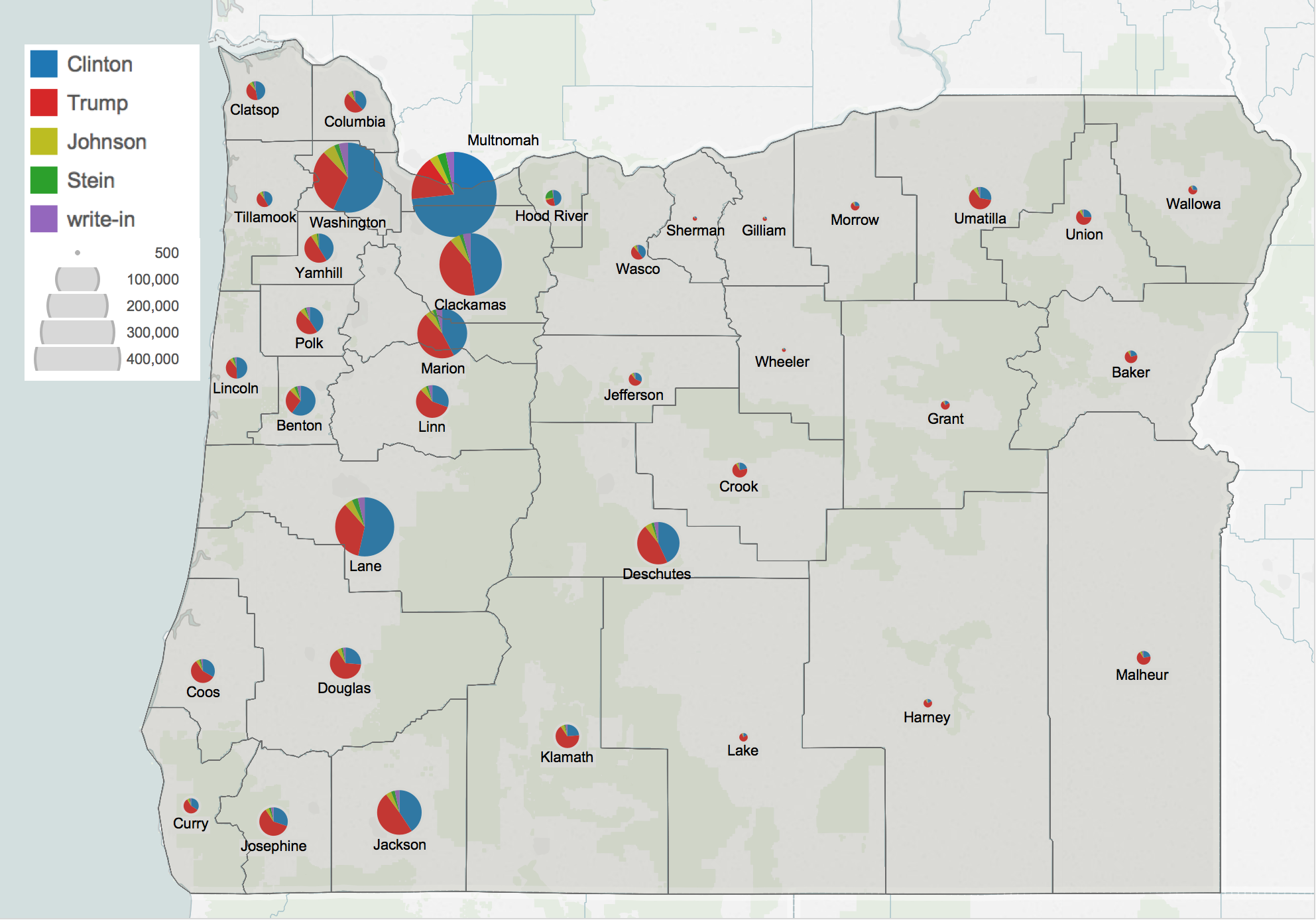 Oregon 2016 presidential results by county. Size shows number of votes, colors show candidates and portion of that county's vote. Source Unofficial 2016 General Election November 8, 2016, United States President and Vice President, Oregon Secretary of State as of December 11, 2016. StateCountyClintonTrumpJohnsonSteinWrite-inOregonBaker1,7976,218413134217OregonBenton29,19313,4452,6921,5951,828OregonClackamas102,09588,39211,0534,0018,498OregonClatsop9,2528,138973569732OregonColumbia10,16713,2171,6465721,016OregonCoos10,44817,8651,411755834OregonCrook2,6378,511518157349OregonCurry4,3007,212498273328OregonDeschutes42,44445,6925,1581,9983,265OregonDouglas14,09634,5822,4131,0211,409OregonGilliam23967179723OregonGrant7393,21020948134OregonHarney6832,91222242115OregonHood River6,5103,2725113,272317OregonJackson44,44753,8704,3732,9963,641OregonJefferson2,9805,483493182321OregonJosephine13,45326,9231,8291,0571,298OregonKlamath7,21020,4351,525508829OregonLake6393,0221514276OregonLane102,75367,1418,4766,3027,278OregonLincoln12,50110,0391,130748838OregonLinn17,99533,4883,4311,3392,466OregonMalheur2,2467,194427177391OregonMarion57,78863,3777,0582,8685,749OregonMorrow1,0172,72123852139OregonMultnomah292,56167,95412,86212,96912,757OregonPolk16,42018,9402,2549071,774OregonSherman202732441128OregonTillamook5,7686,538760333404OregonUmatilla7,67317,0591,457489919OregonUnion3,2498,431673198417OregonWallowa1,1162,84817982141OregonWasco4,7815,833689239422OregonWashington153,25183,19715,2666,00511,513OregonWheeler155591461016OregonYamhill19,30123,2503,0741,016211Date11 December 2016SourceOwn workAuthorDennis Bratland Licensing[edit]